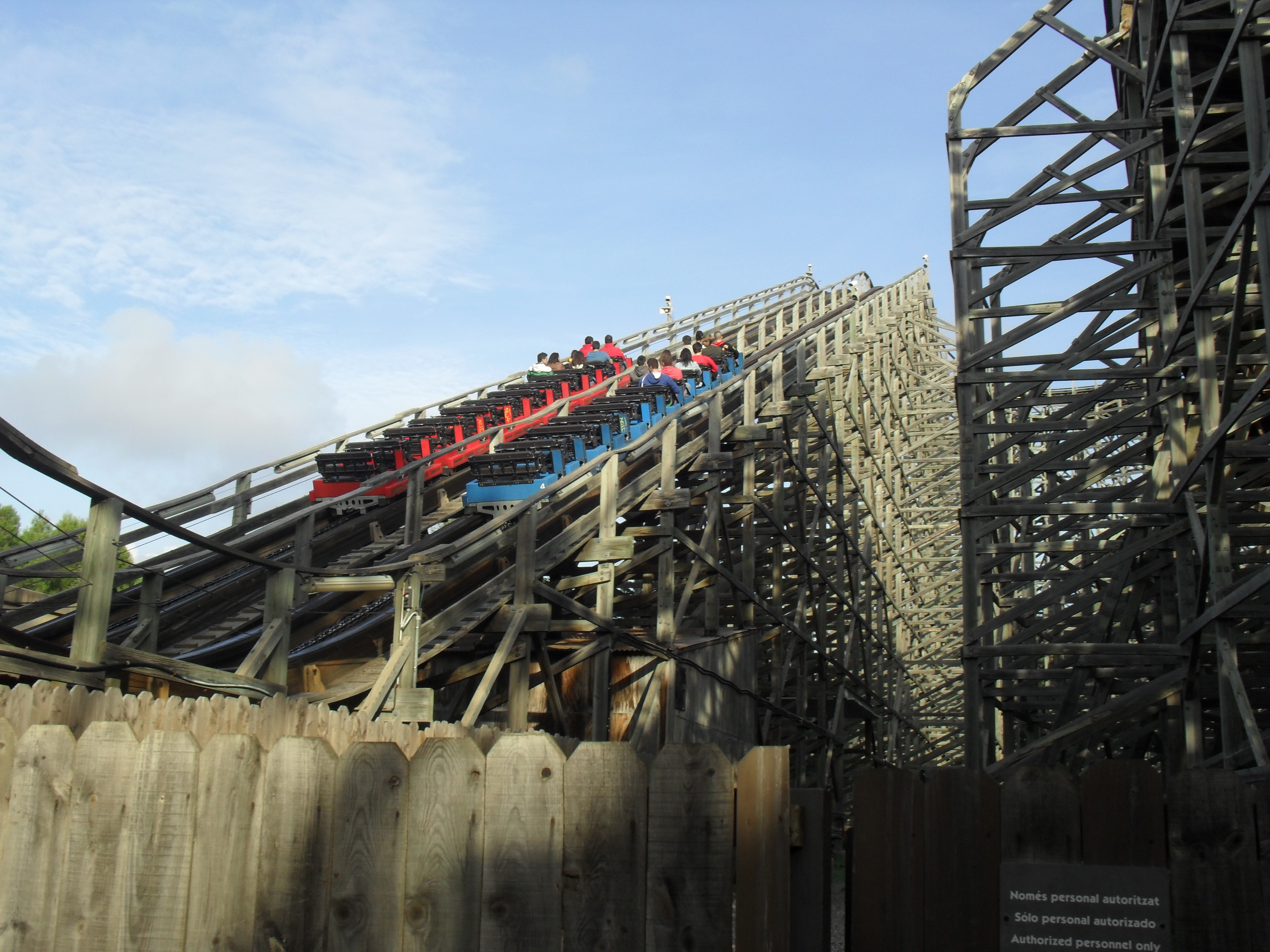 Lift hill of the roller coaster Stampida at Port Aventura, Spain